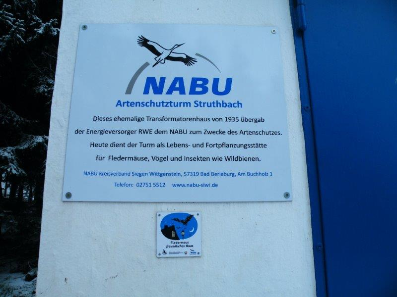 Hinweisschild am ehemaliger Trafoturm Struthbach der RWE bei Bad Berleburg-Diedenshausen mit Baujahr 1935. Vom NABU 2012 übernommen und 2013 zum Artenschutzturm Struthbach umgebaut.